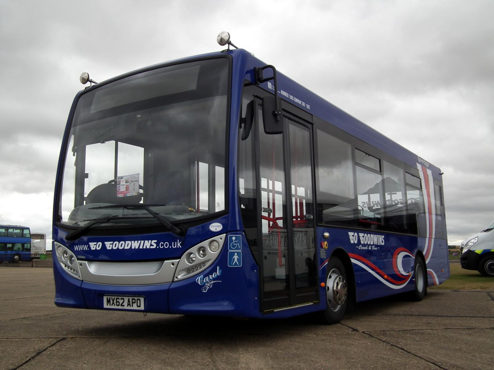 Go Goodwins (MX62 APO), an Alexander Dennis Enviro200 Dart, seen at Showbus 2012.